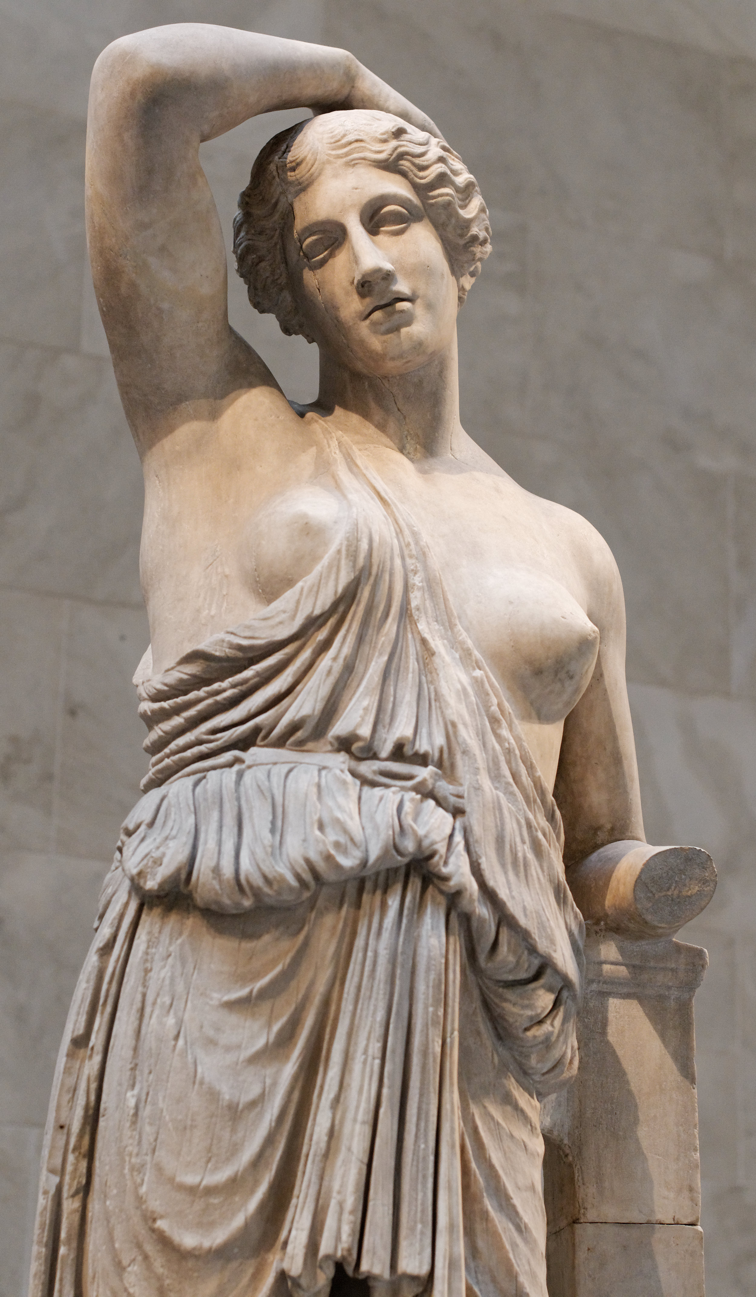 Wounded Amazon. Roman artwork of the Imperial period after a Greek bronze original of ca. 450–425 BC; the lower legs and feet are casts from other copies in Berlin and Copenhagen; the right arm, lower part of the support and plinth are 18th century restorations.